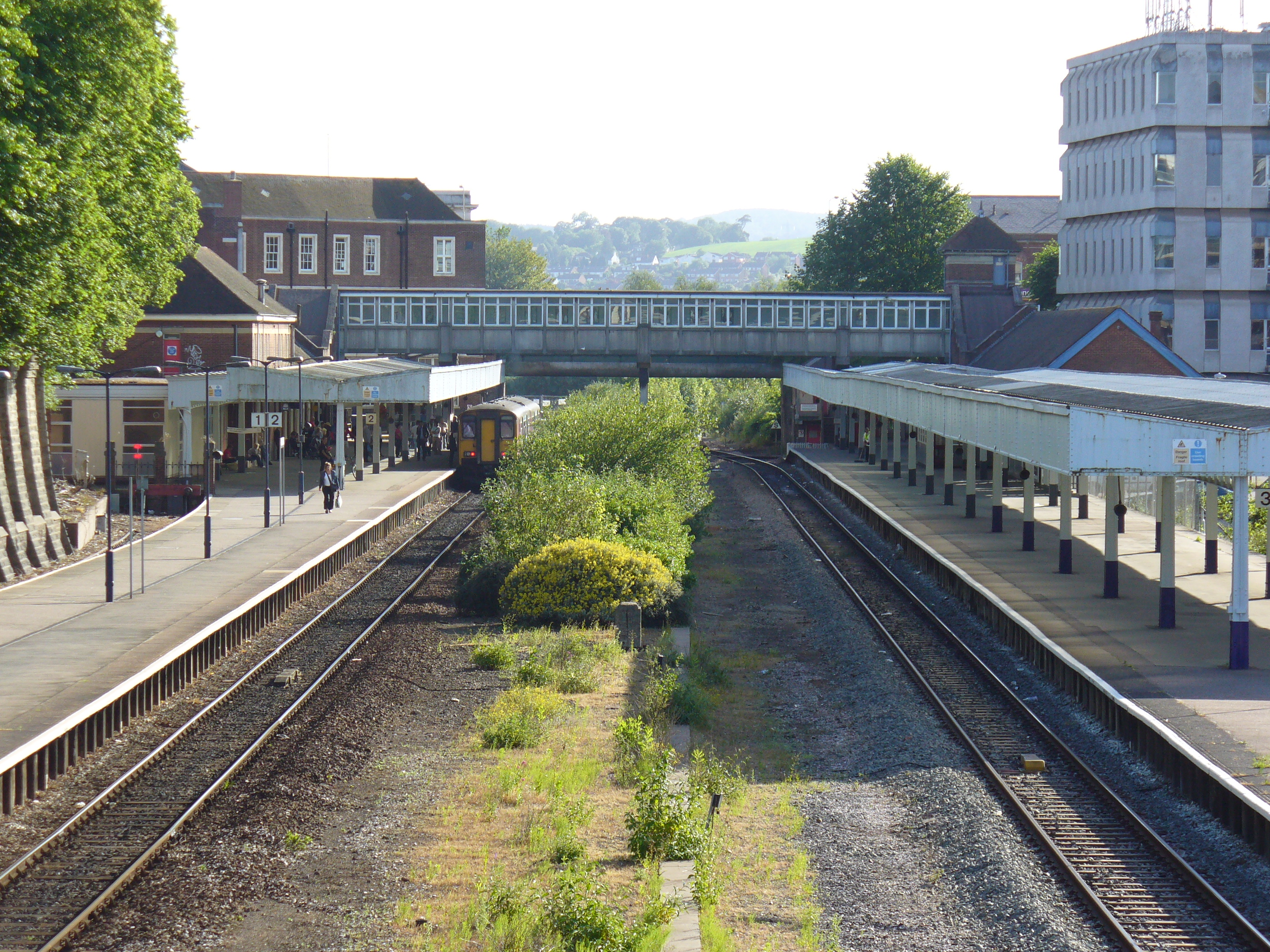 Exeter Central Railway Station in Exeter, Devon, England, facing North-West towards Exeter St Davids. The rarely used Platform One, on the Exmouth branchline, is on the far left, with trees in Northernhay Gardens overhanging. The Exeter Central to Barnstaple service is currently stopped at Platform Two. Platform Three is empty as the Exeter St Davids to London Waterloo service has just left. The road bridge is obscured by the footbridge.